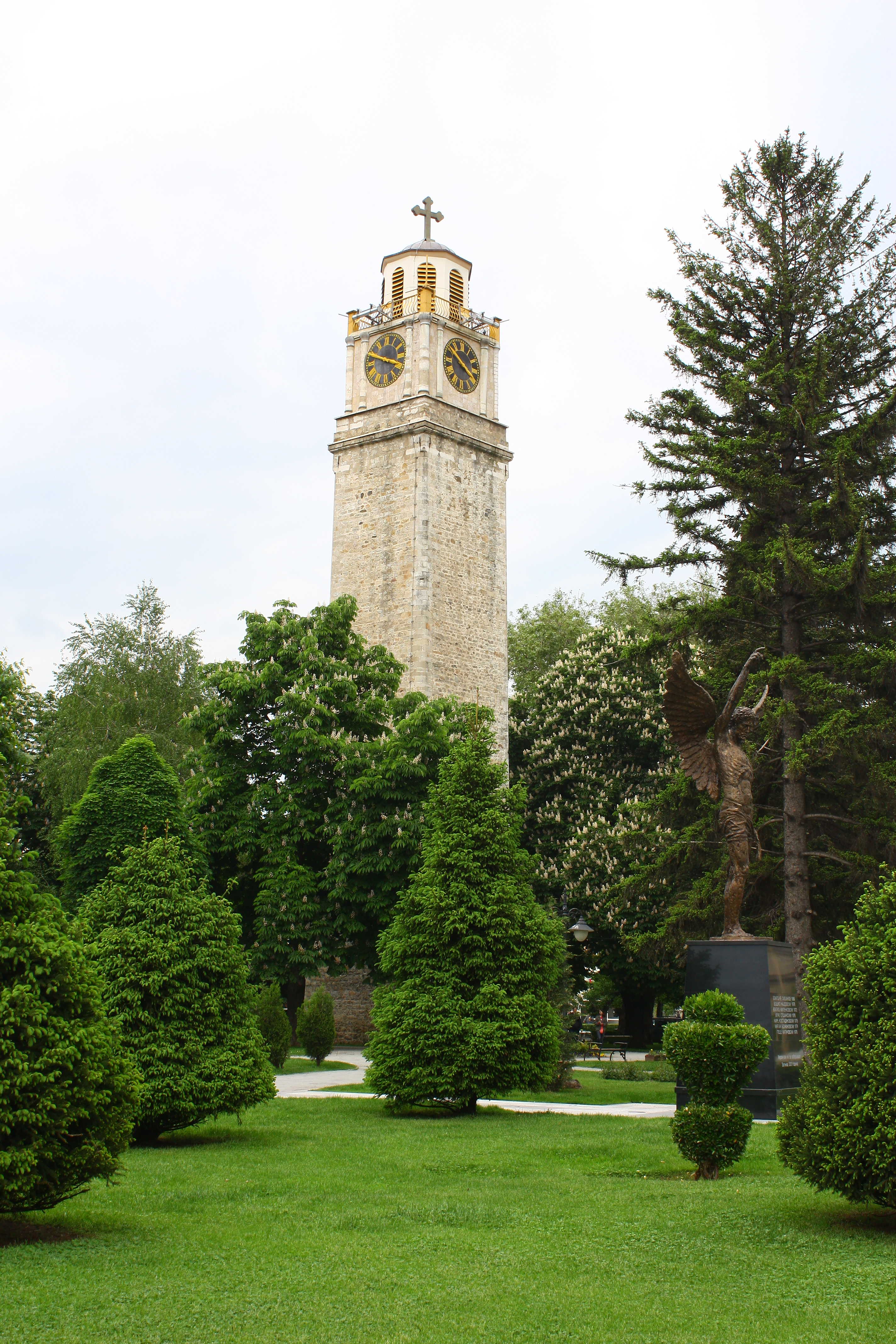 Clock tower in Bitola, Macedonia